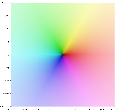 Map of colors for complex functions. Scale is made by using Sinh. See User:Jan_Homann/Mathematics for how to create and use images like these to visualize complex functions.